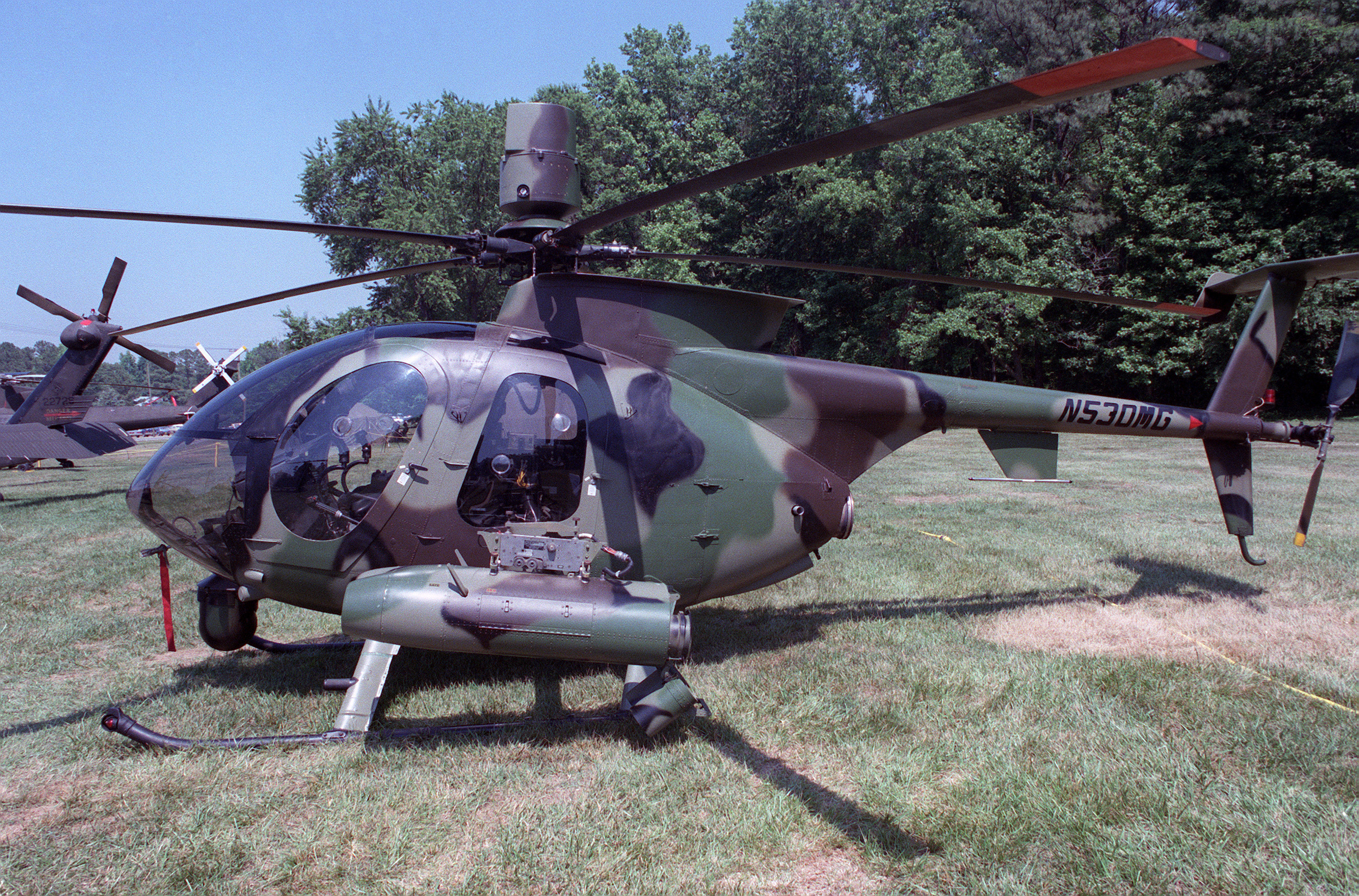 A Hughes 530MG Defender helicopter on display during the Army logistics exposition PROLOG '85.